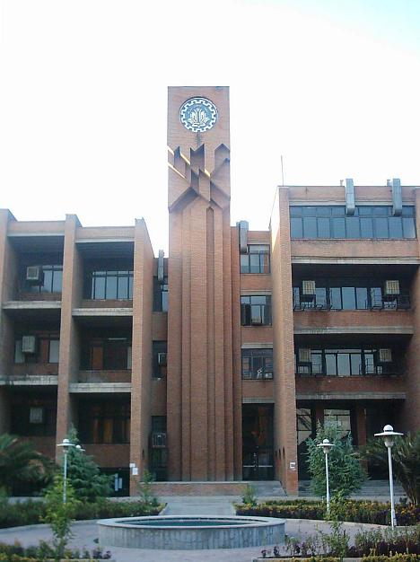 Ibn Sina Tower, Sharif University of Technology